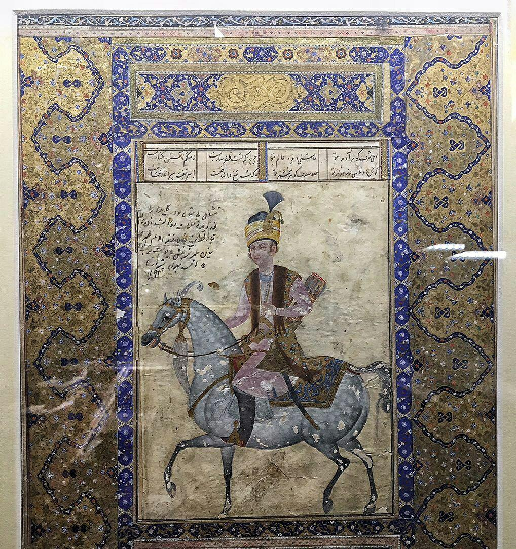 Miniature portrait of Lotf Ali Khan e Zand 18 th Century AD National Museum of Iran